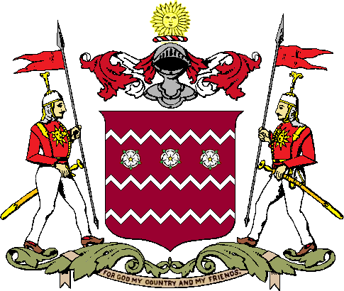 Kashmir Princely State Coat of Arms This work is in the public domain in India because its term of copyright has expired. The Indian Copyright Act applies in India, to works first published in India. According to The Indian Copyright Act, 1957 (Chapter V Section 25), Anonymous works, photographs, cinematographic works, sound recordings, government works, and works of corporate authorship or of international organizations enter the public domain 60 years after the date on which they were first published, counted from the beginning of the following calendar year (ie. as of 2020, works published prior to 1 January 1960 are considered public domain). Posthumous works (other than those above) enter the public domain after 60 years from publication date. Any other kind of work enters the public domain 60 years after the author's death. Text of laws, judicial opinions, and other government reports are free from copyright. Photographs created before 1960 are in the public domain 50 years after creation, as per the Copyright Act 1911. This file may not be in the public domain outside India. The creator and year of publication are essential information and must be provided. See Wikipedia:Public domain and Wikipedia:Copyrights for more details. This image shows a flag, a coat of arms, a seal or some other official insignia. The use of such symbols is restricted in many countries. These restrictions are independent of the copyright status.